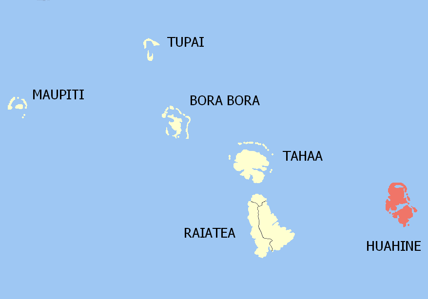 Map shows location of Huahine in the South Pacific